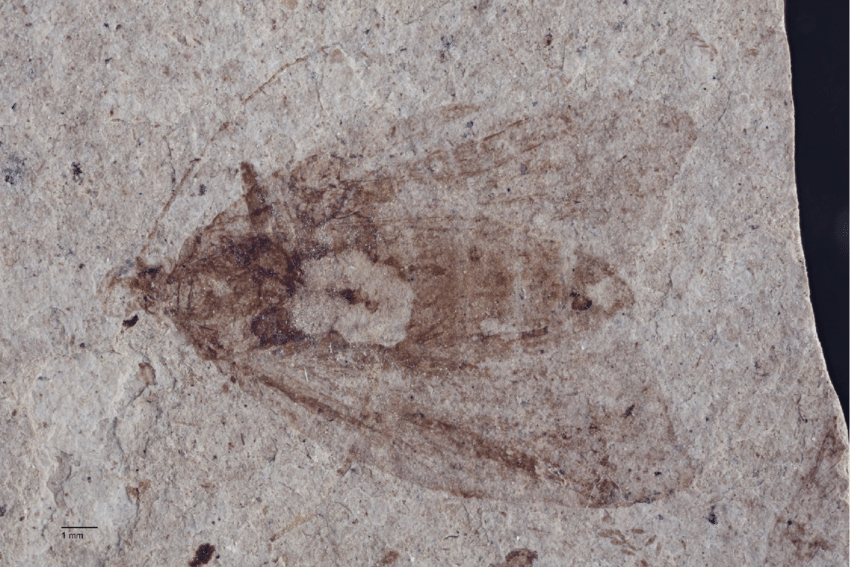 Paleolepidopterites florissantanus (Cockerell, 1907), UCNH (HT: no. 8579). Compression fossil, Florissant Beds National Monument. Length of body including head 14 mm.